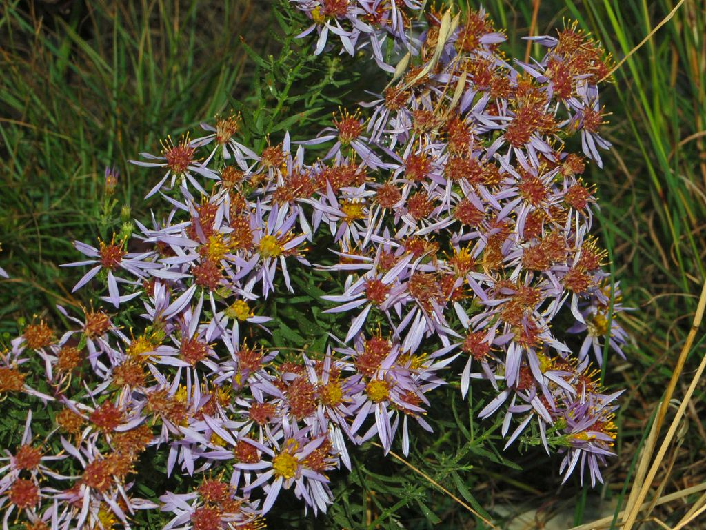 Aster sedifolius